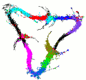 firing fields of 7 hippocampal place cells, in a rat running around an elevated triangular track. Black dots represent positions, colored dots represent spikes, with a different color for each cell.